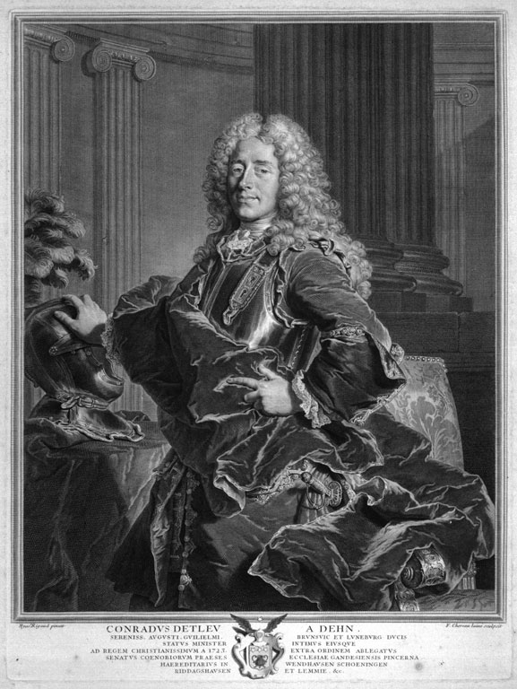 Konrad Detlev Count of Dehn (* 1688 in Preetz; † 28. Januar 1753 in Den Haag)